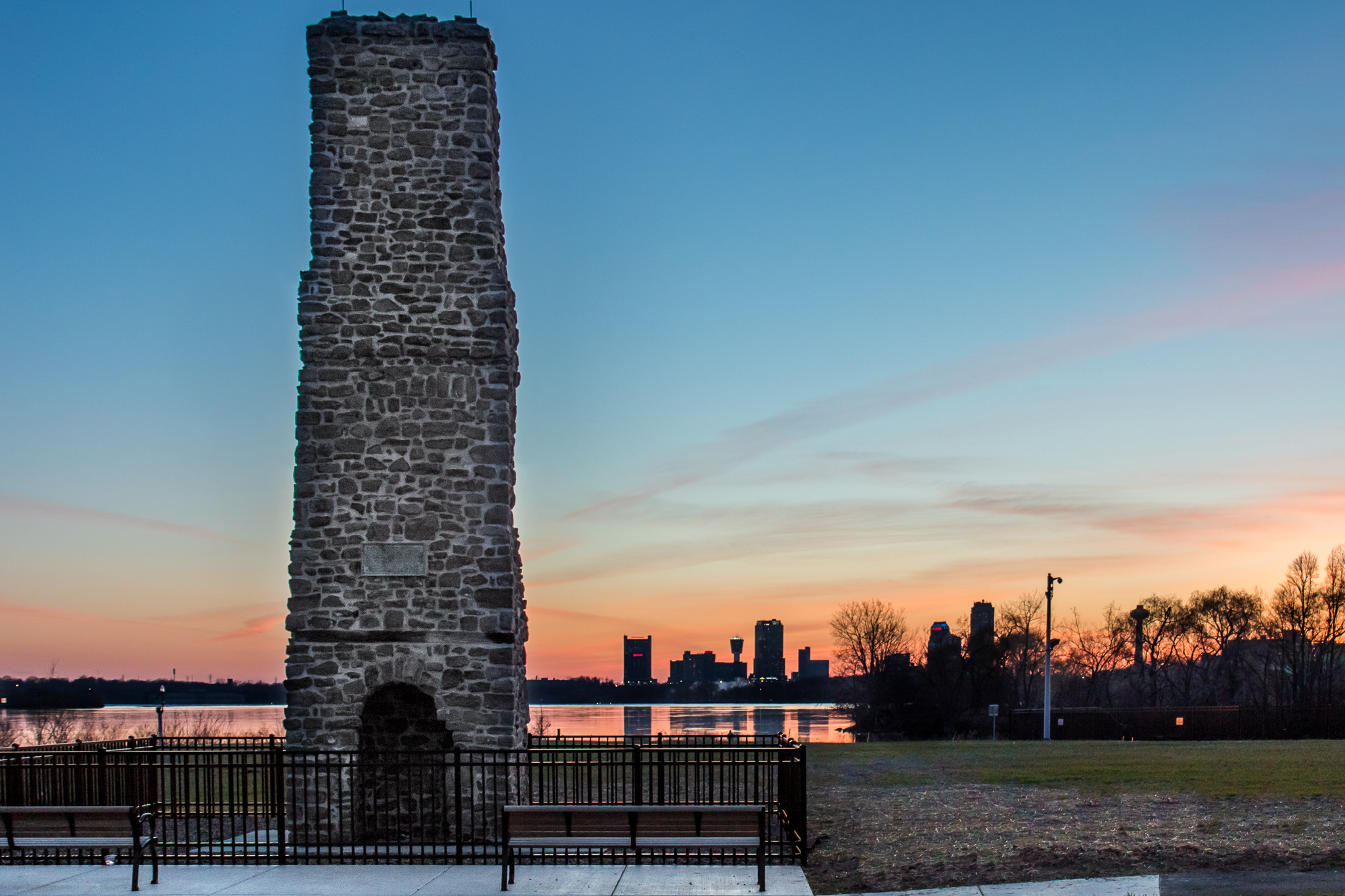 Old Stone Chimney in its new location as November 2015 close to the Niagara River in Niagara Falls USA. The skyline of Niagara Falls Canada can be seen in the background.